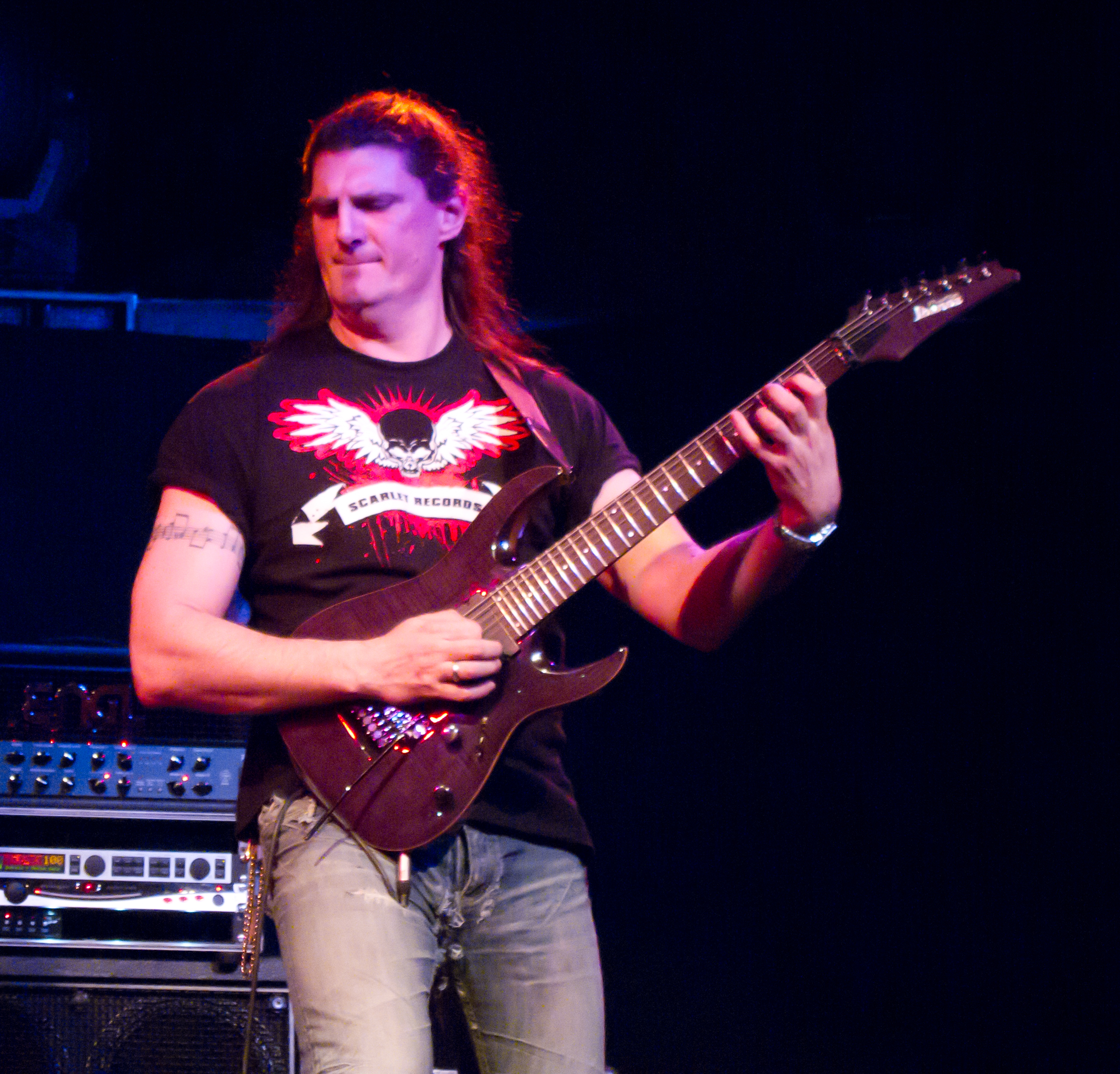 Olaf Thorsen (Labyrinth) live.